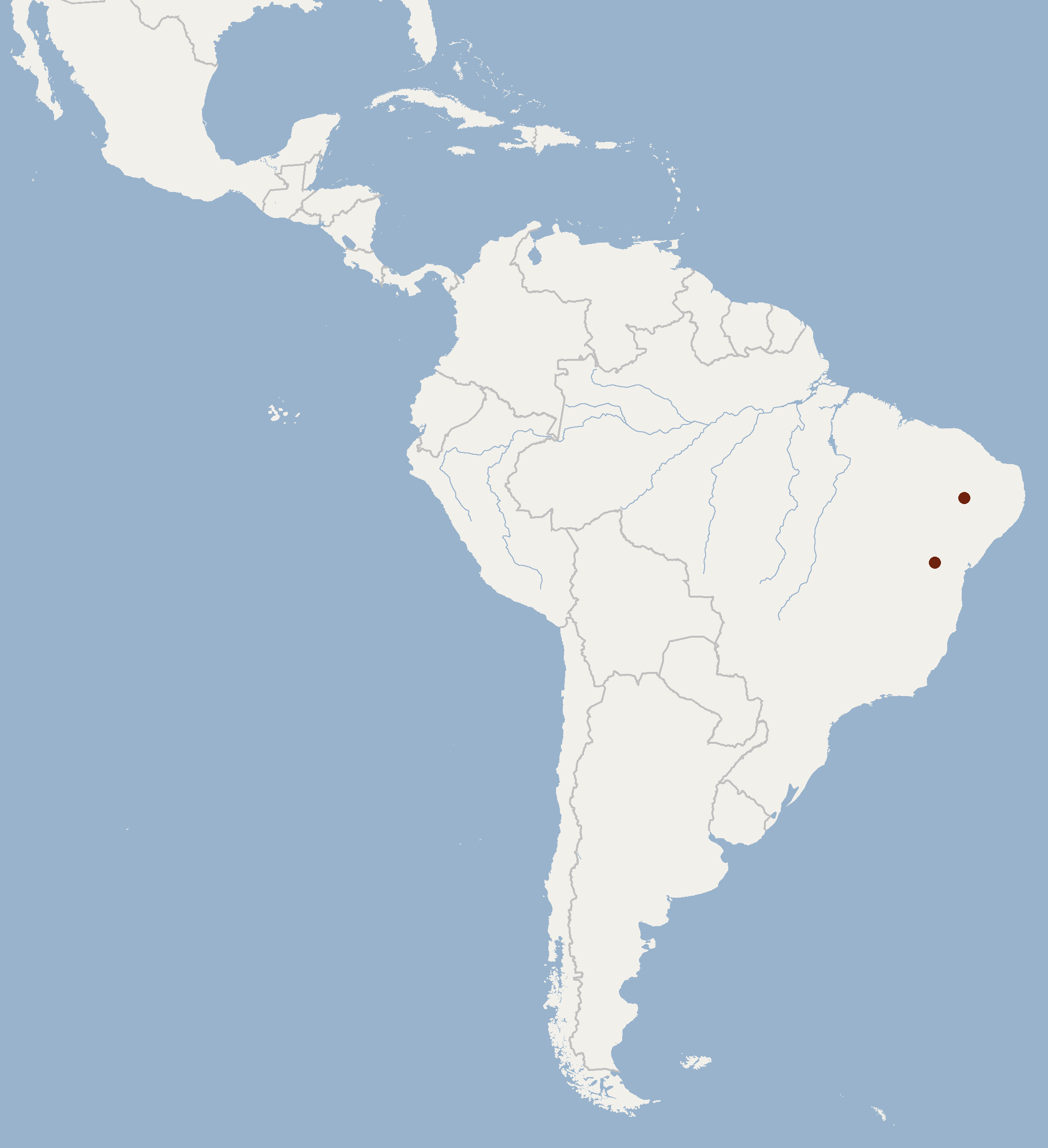 According to Moratelli & Dias, 2015